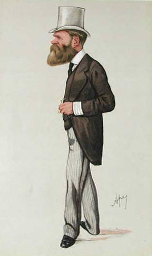 Caricature of Edward Birkbeck MP. Caption read "the fisherman's friend".